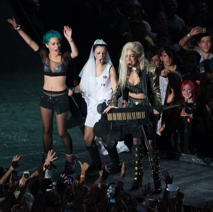 Lady Gaga performing "Marry the Night" on The Born This Way Ball in Milan, Italy.